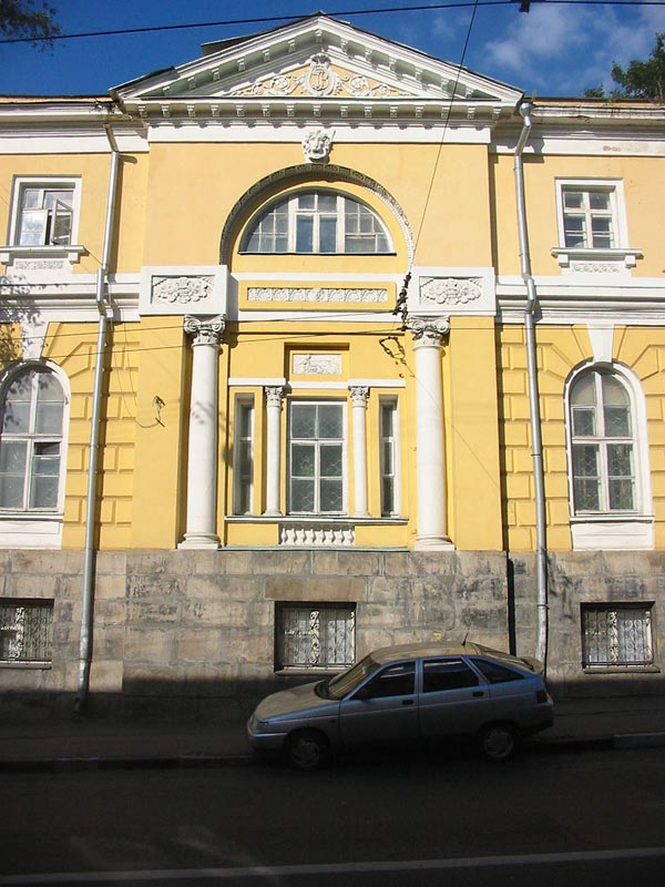 Yauzskaya Hospital, Moscow (Batashev Palace)